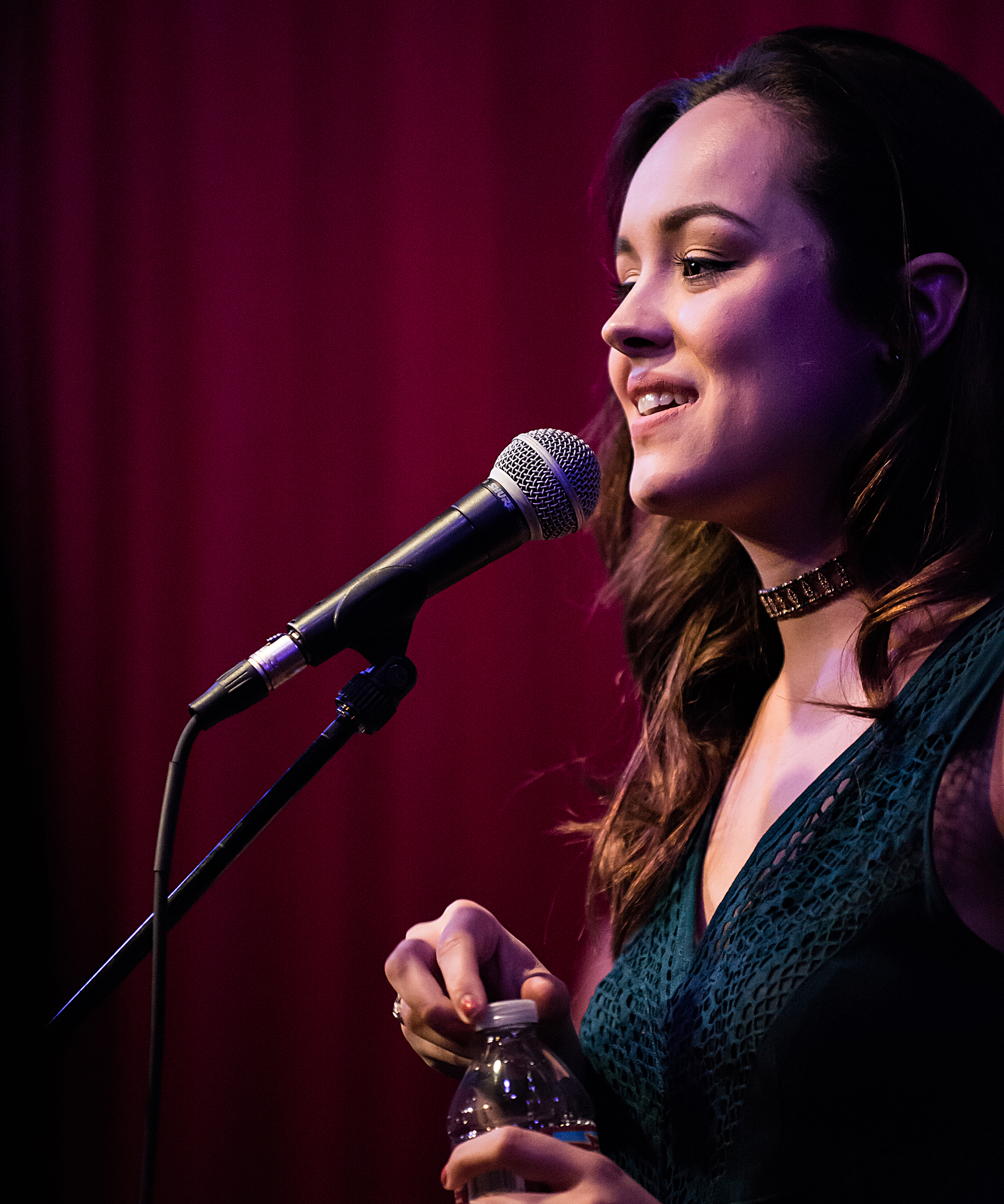 Hayley Orrantia performing live at the Hotel Cafe in Hollywood, Los Angeles, California, on Saturday, October 8th, 2016.